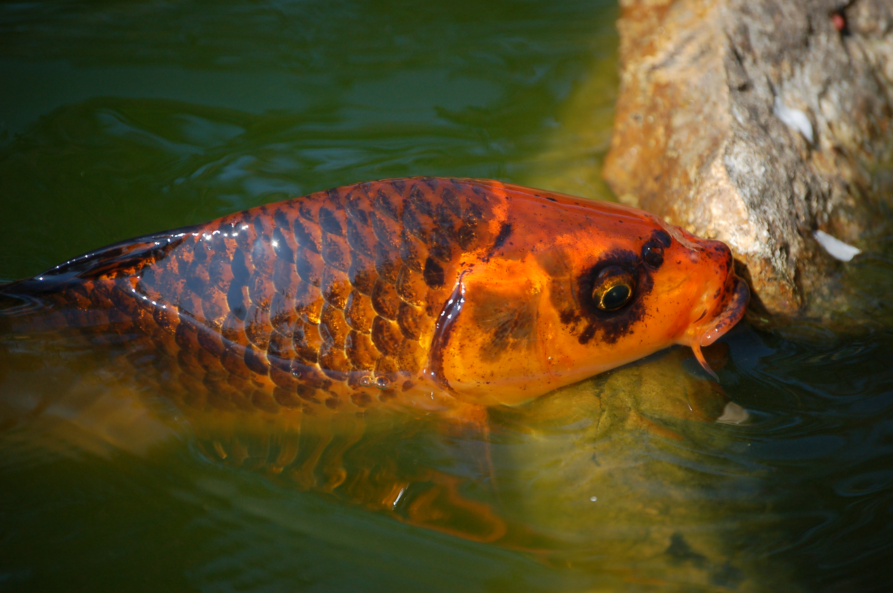 Koy Cyprinus